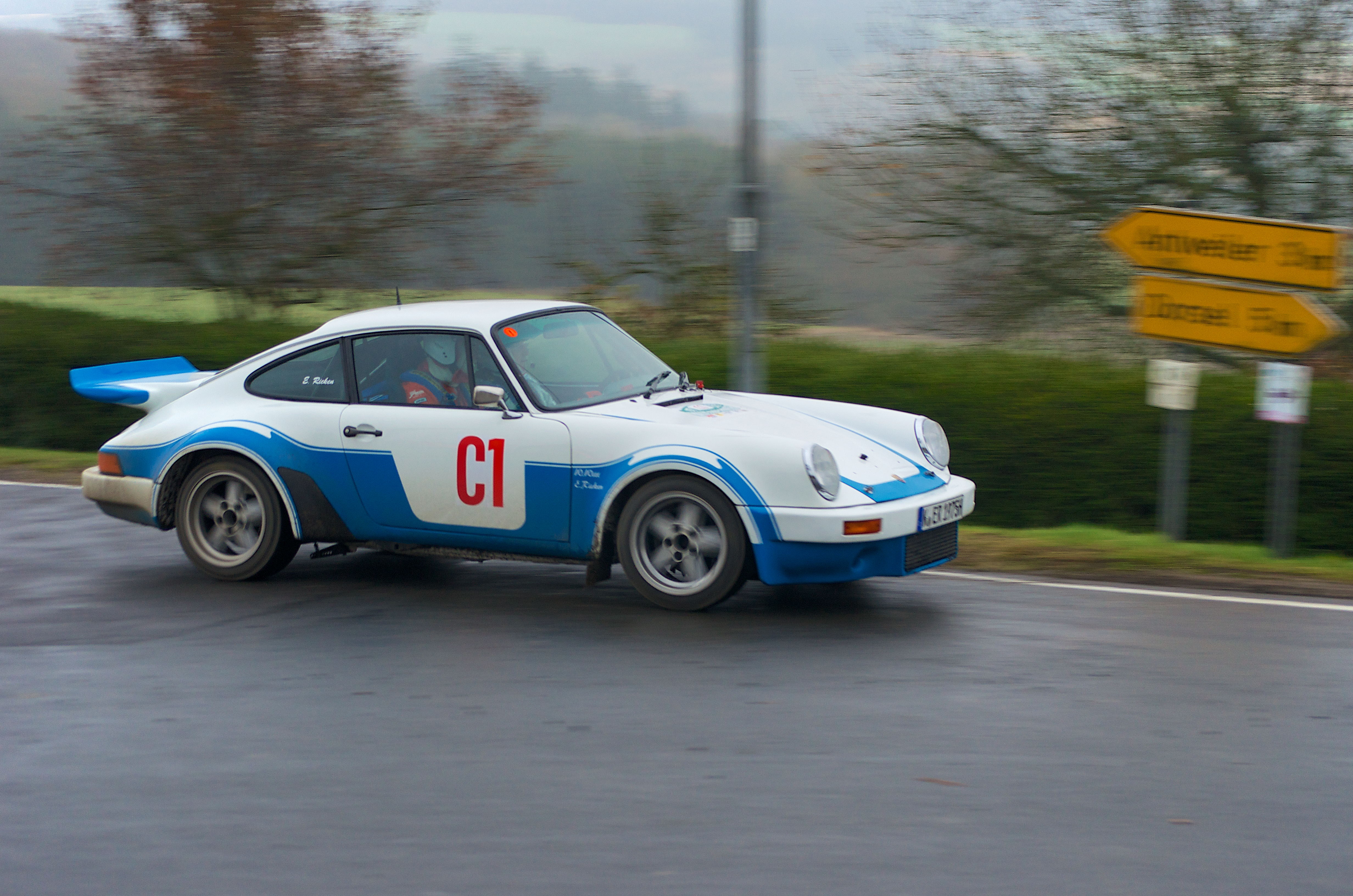 Advance Car in the course of the 2012 Rallye Köln-Ahrweiler, Porsche 911 Carrera RS from 1975 driven by Dr. Erhard Ricken and co-driver Wolfgang Witt